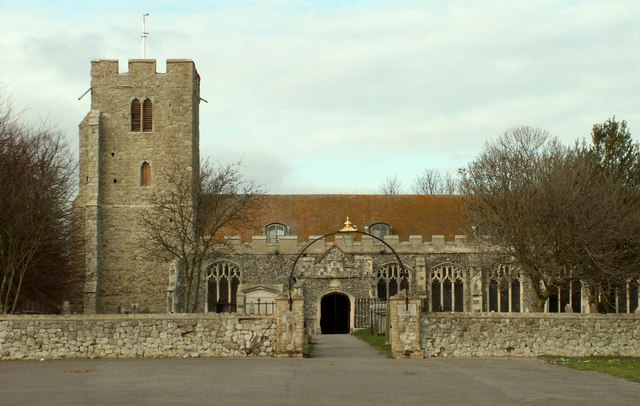 St. Mary; the parish church of Burnham-On-Crouch